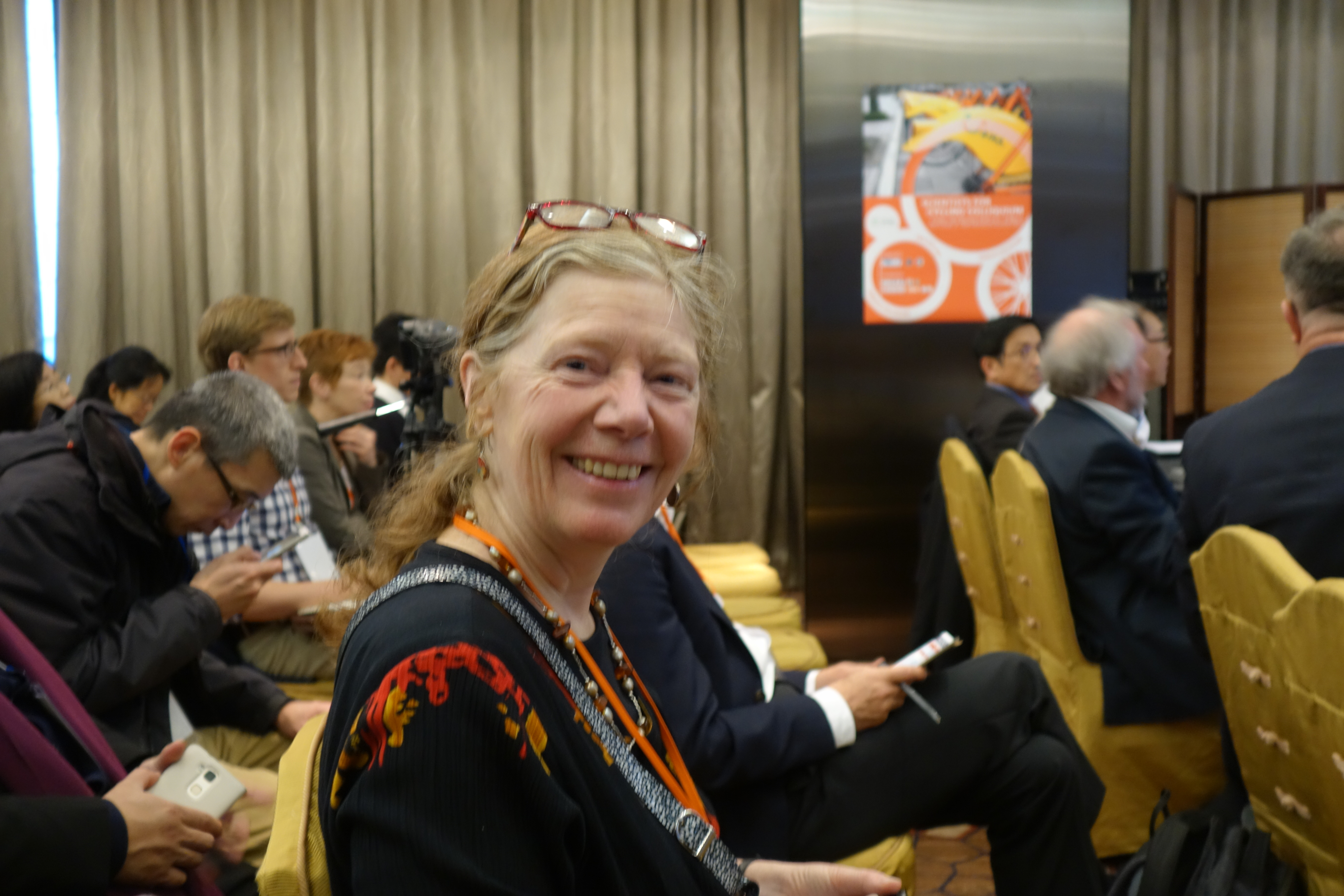 Pictured is Lake Sagaris at the European Cyclists' Federation